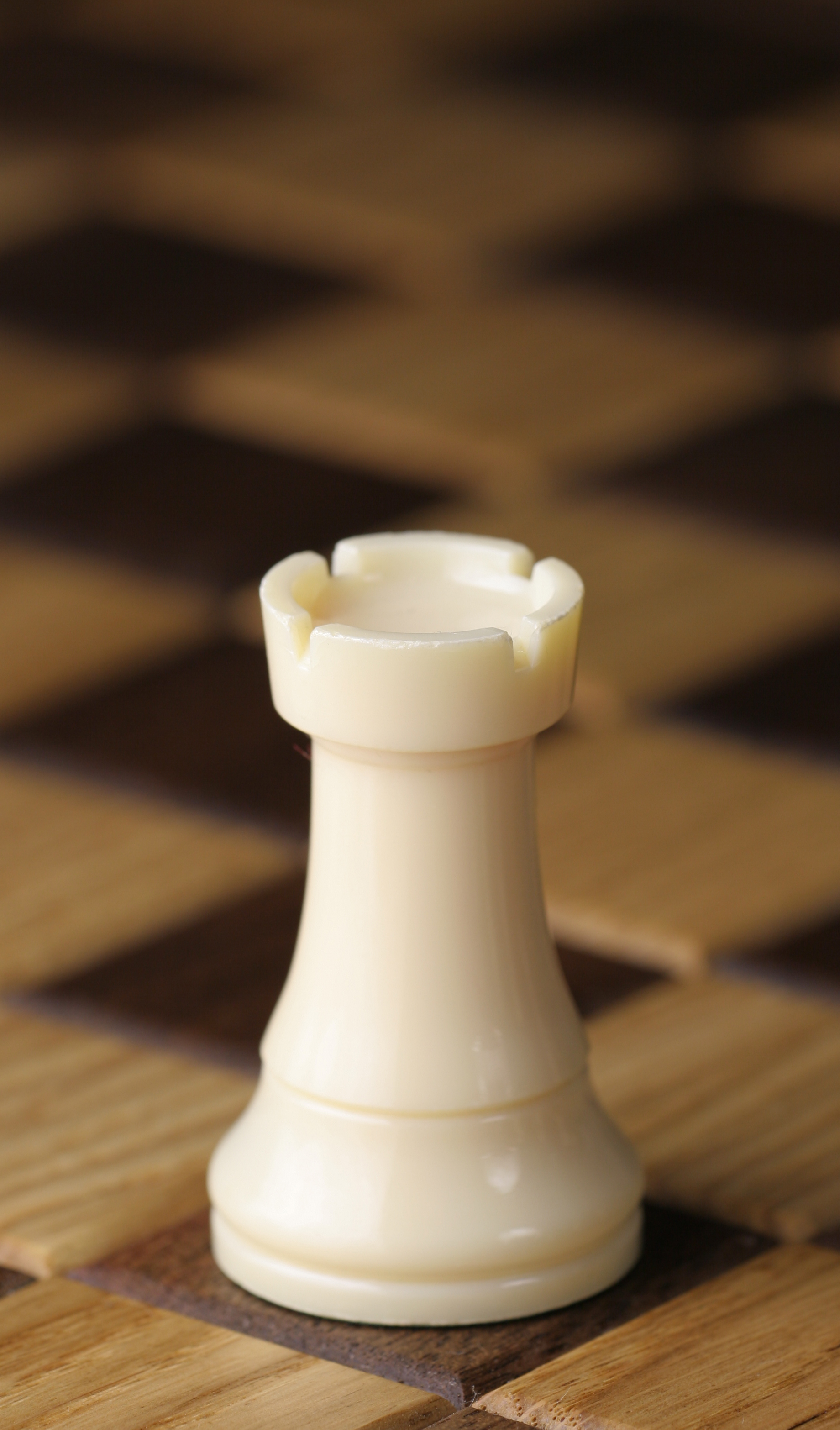 Chess piece - White rook, Staunton design